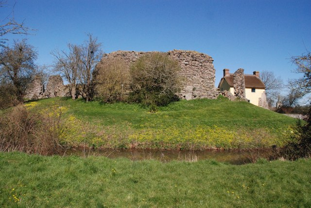 Stogursey Castle Grade II. 12th Century Castle with 17th Century Cottage incorporated into the walls. Scheduled Ancient Monument.